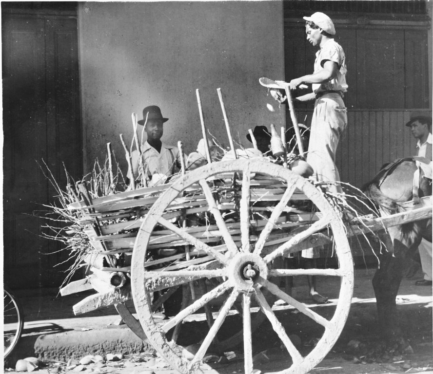 Photo taken downtown Port of Spain, Trinidad, 1950s